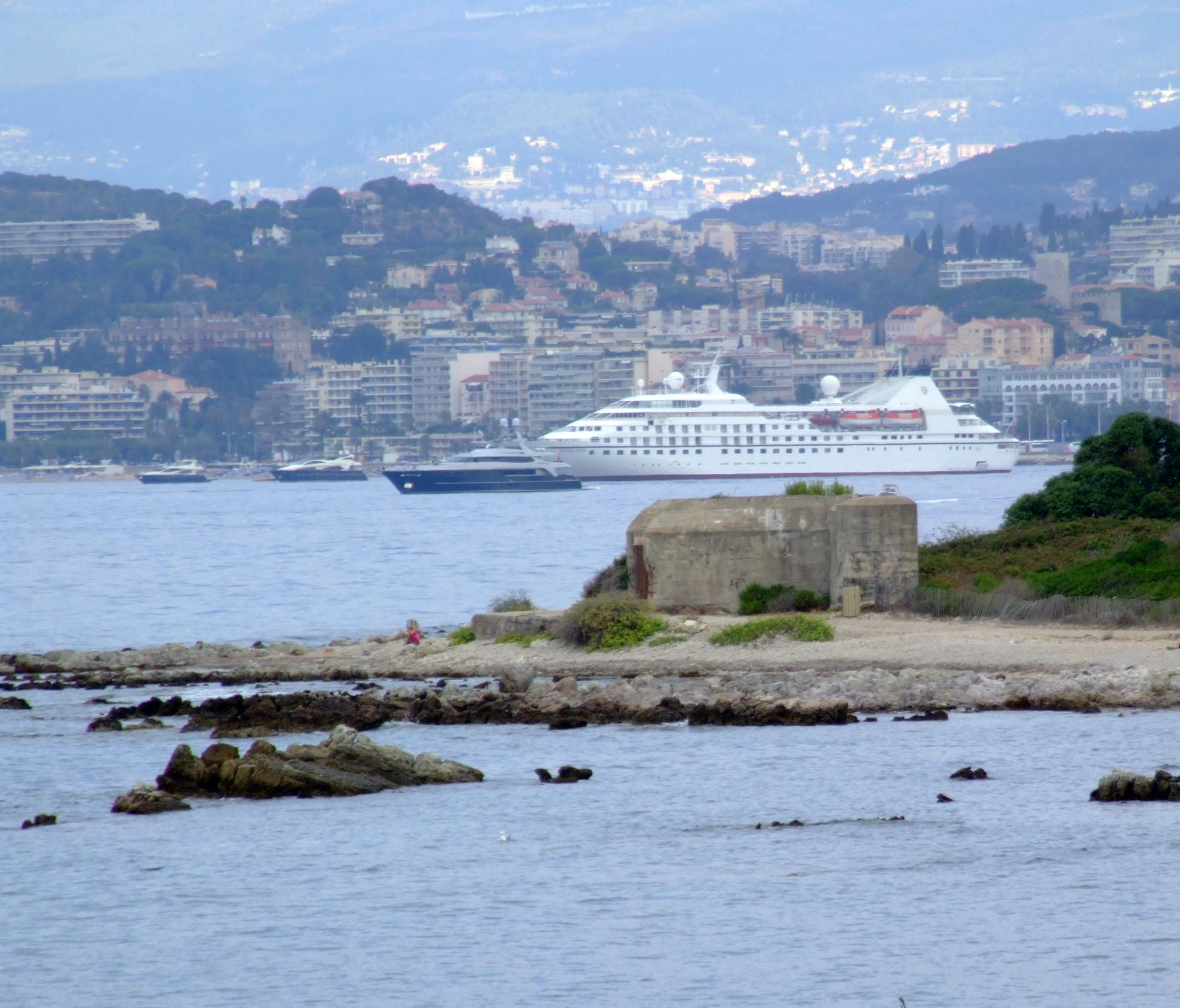 Lérins Islands, France